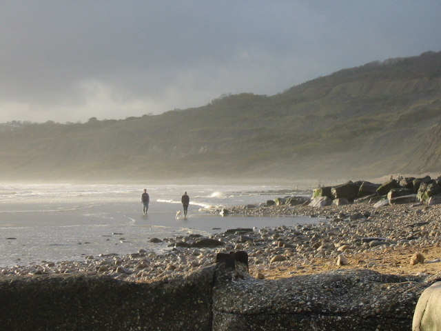 Charmouth - shoreline west of river mouth